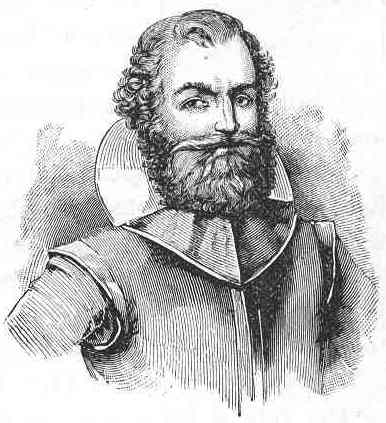 Captain John Smith (1579-1631)